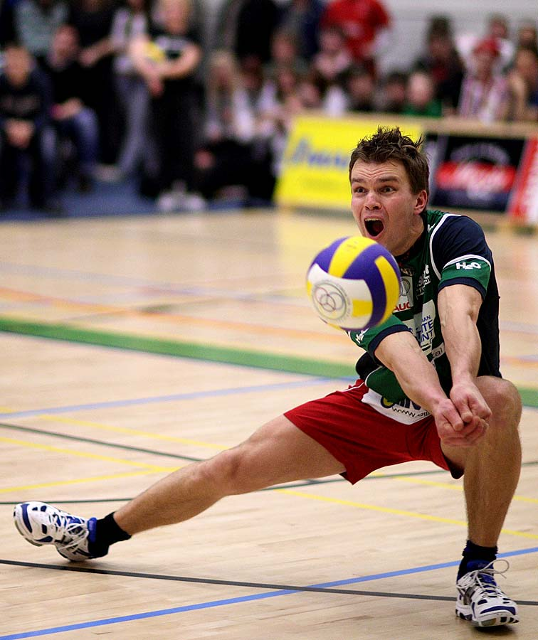 Finland volleyball player Timo Haavisto receive season 2008